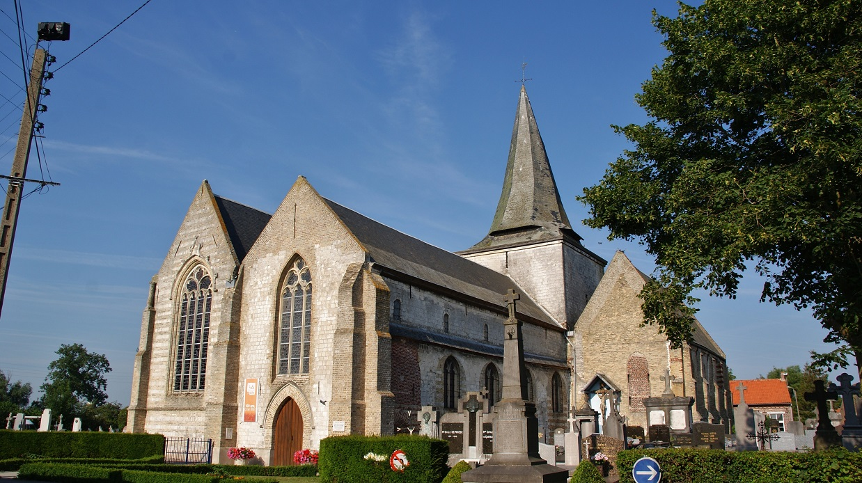 église St Folquin